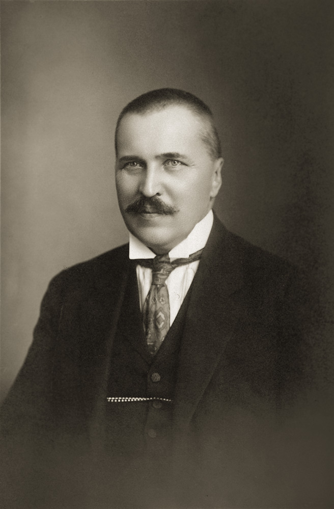 Jonas Vileišis. One of the signatories of Lithuanian independence act.